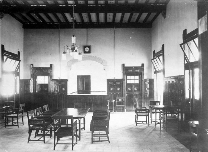 Waiting room in the railwaystation in Semarang Tawang, Java